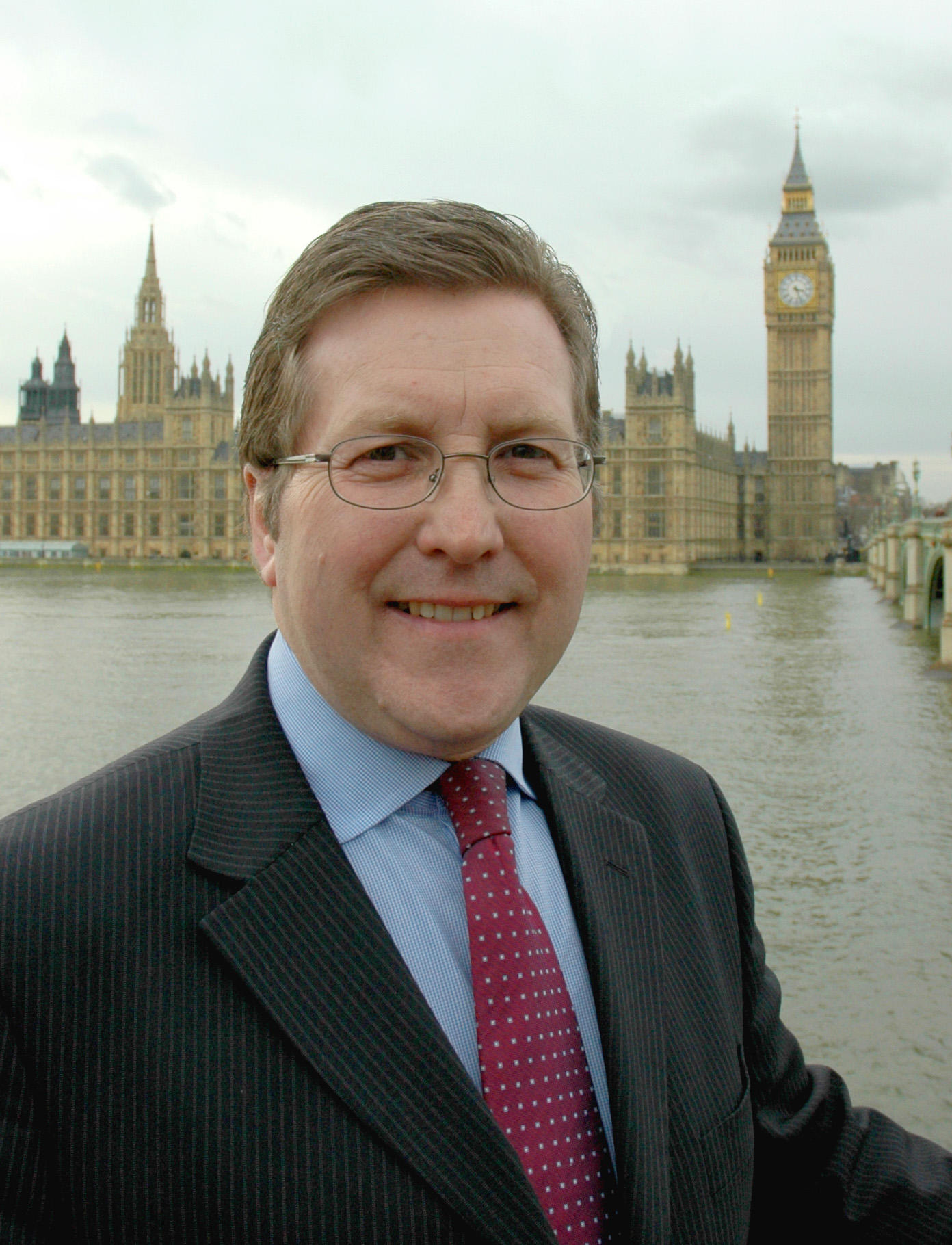 Mark Hunter, British Liberal Democrat politician who is the current Member of Parliament for Cheadle.